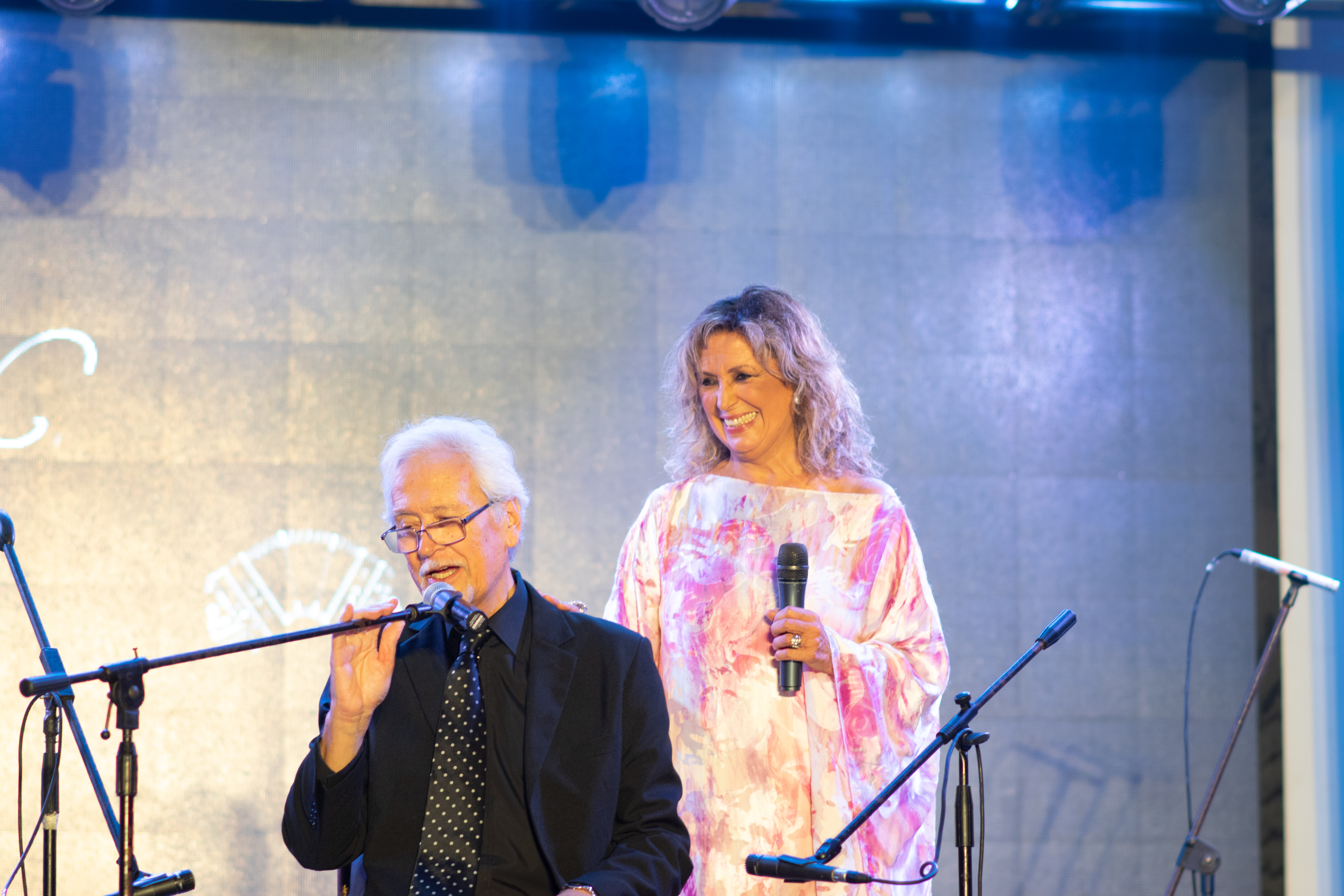 Walter Ríos in concert with Mariel Dupetit, tango singer of Argentina in espacio Clarín, Mar del Plata, Argentina